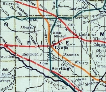 Stouffer's Railroad Map of Kansas, 1915-1918, Rice County.